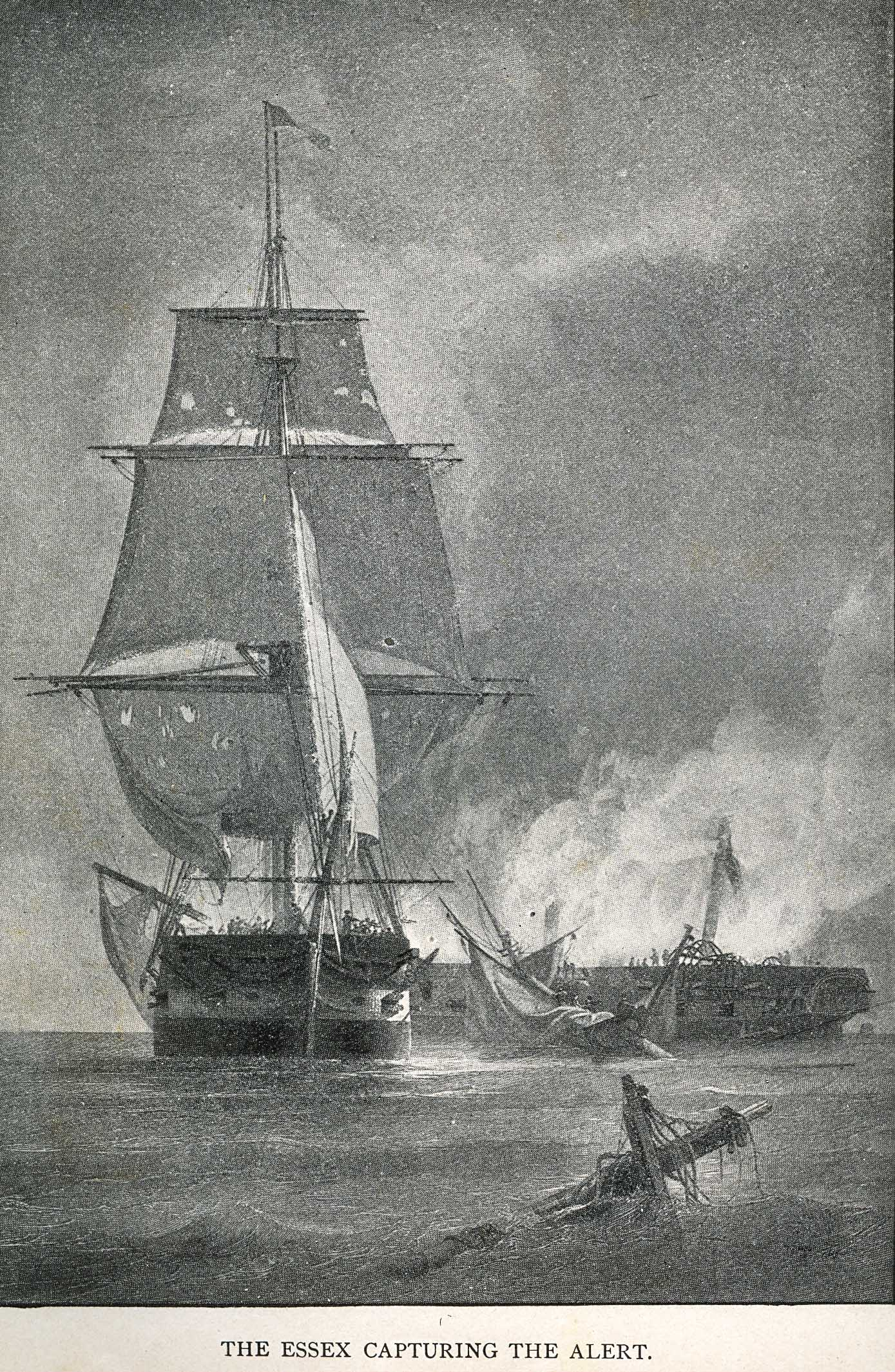 USS Essex in War of 1812